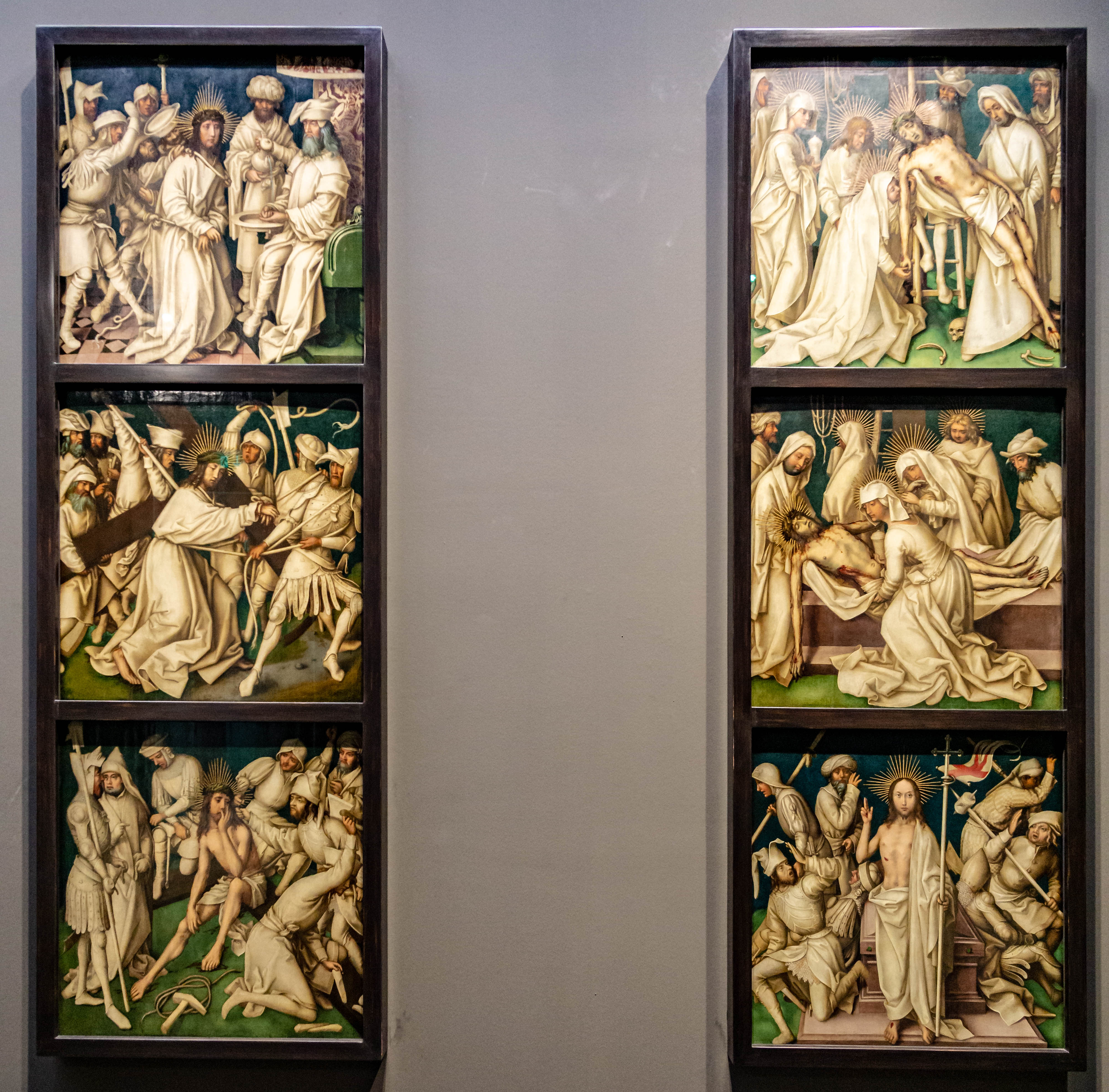 Grey Passion Deposition of Christ - Entombment of Christ - Resurrection of Christ (Panels of the right interior wing); Pilate Washing his Hands - Christ Carrying the Cross - Christ at Rest (Panels of the left interior wing)